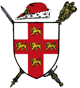 Coat of arms of York City Council. The so-called Cap of Maintenance is here correctly shown in the reversal of its usual position in heraldry. Explanatory text per Wikipedia – Cap of maintenance: "The City of York claims to possess an original medieval Cap of Maintenance, which is kept and displayed in the Mansion House; whatever its origin it is in fact a "Robin Hood" style of cap with ermine trimmings forming into a split peak at the back and was copied from an heraldic drawing and not from a genuine Cap of Maintenance. Caps of this style are still worn by the York Swordbearers. The City of York claims the grant of a Cap of Maintenance from the Yorkist King Richard III (1483-1485)[1]) and incorporates this into its Coat of Arms as a quasi-crest but reverses it so that the tail or peak faces to dexter (viewer's left), thus further compounding the confusion".